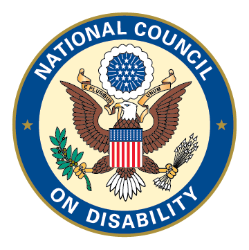 Seal of the National Council on Disability featuring a circle with blue ring and white letters spelling National Council on Disability. In the center is a light cream background and American eagle crest.